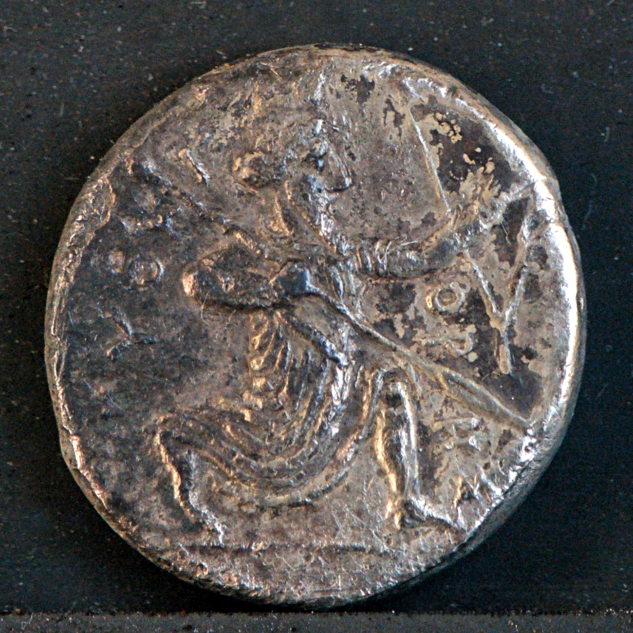 Silver Rhodian-weight tetradrachm of Ephesos under Memnon of Rhodes, ca. 334 BC, obverse: the Persian king holding a bow and spear running right.